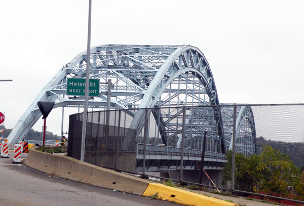 Picture of the McKees Rocks Bridge from Island Avenue in McKees Rocks, Pennsylvania, on October 17, 2009. The bridge was built in 1931. Nearby this location is a/an historical marker, though not really concerning this bridge, it says the following: "1909 McKee's Rocks Strike - On July 14, unskilled immigrant workers led a strike against the Pressed Steel Car Company. Strain among the strikers, replacement laborers, and state police erupted into a riot on August 22. Eleven men were killed near this footbridge. Strikers were aided by the Industrial Workers of the World." Pennsylvania Historical and Museum Commission 2000.[1]